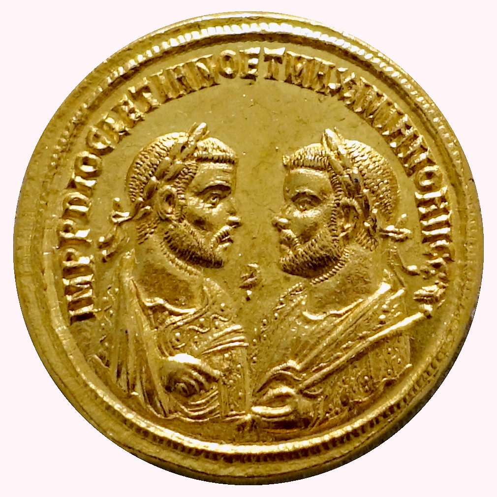 Exhibit in the Bode-Museum, Berlin, Germany. This work is in the public domain because the artist died more than 100 years ago. IMPP DIOCLETIANO ET MAXIMIANO AVGG Rome, 26,58 gr. Reverse : I-MPP DIOCLETIANO III ET MAXIMIANO CCSS. the two emperor in a char pulled by four elephants